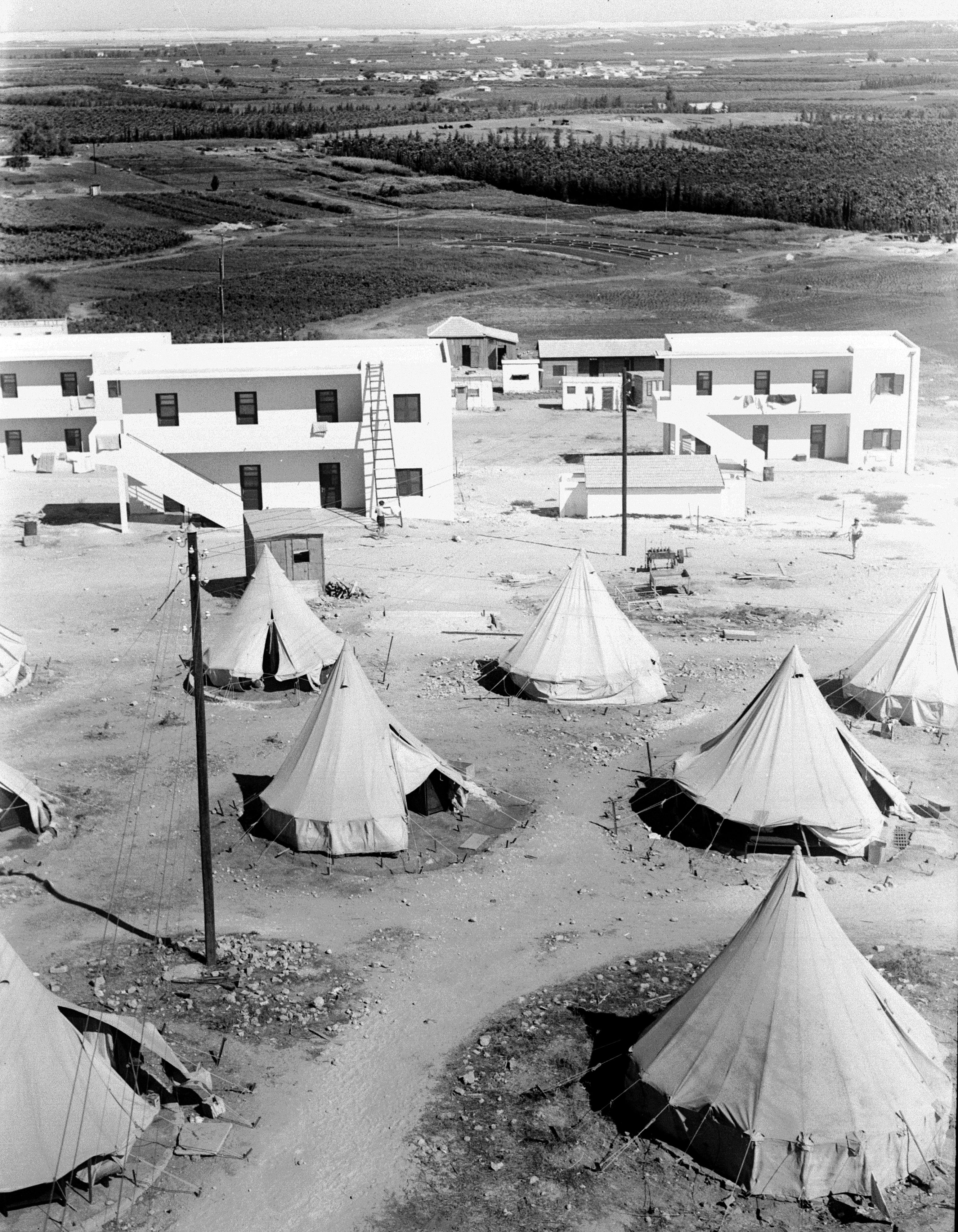 View of kibbutz Givat Brener.